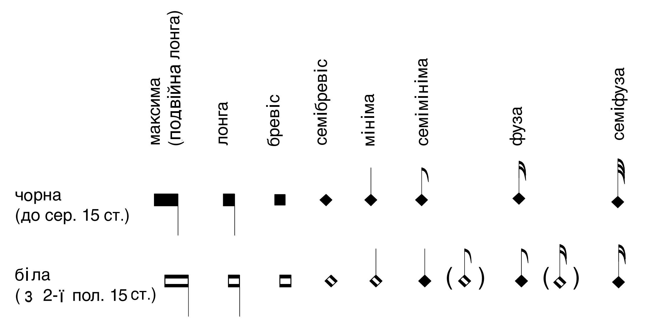 Values of mensural notation